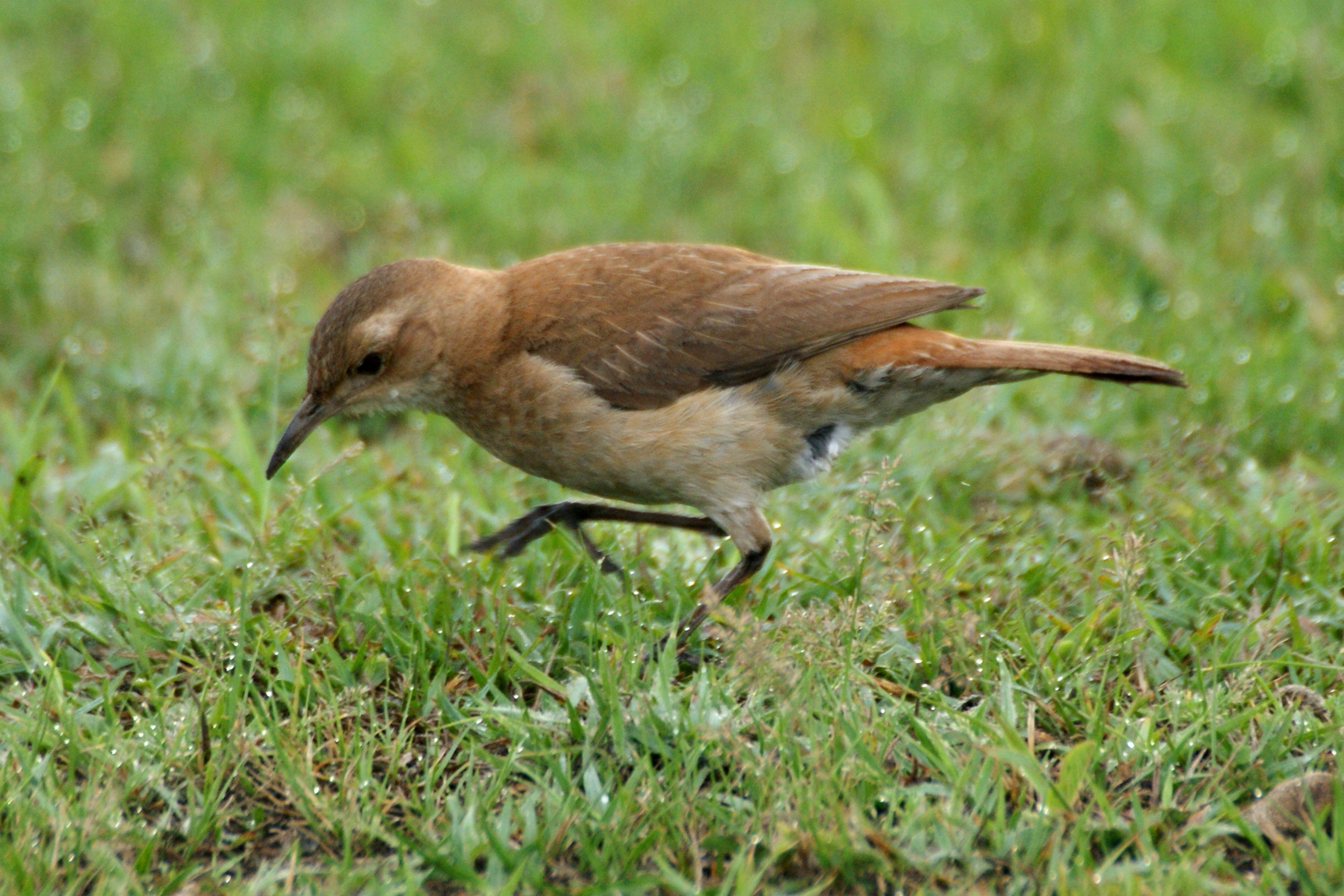 A Rufous Hornero at Iguacu National Park, Paraná State, Brazil.